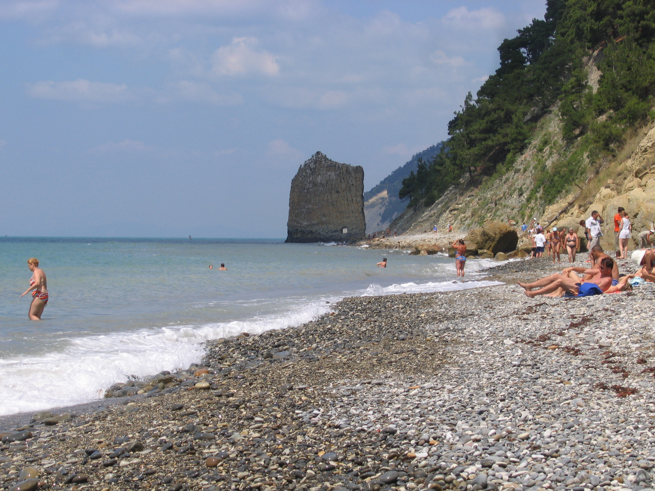 Parus Rock, Krasnodarskiy region, Russia. General view.